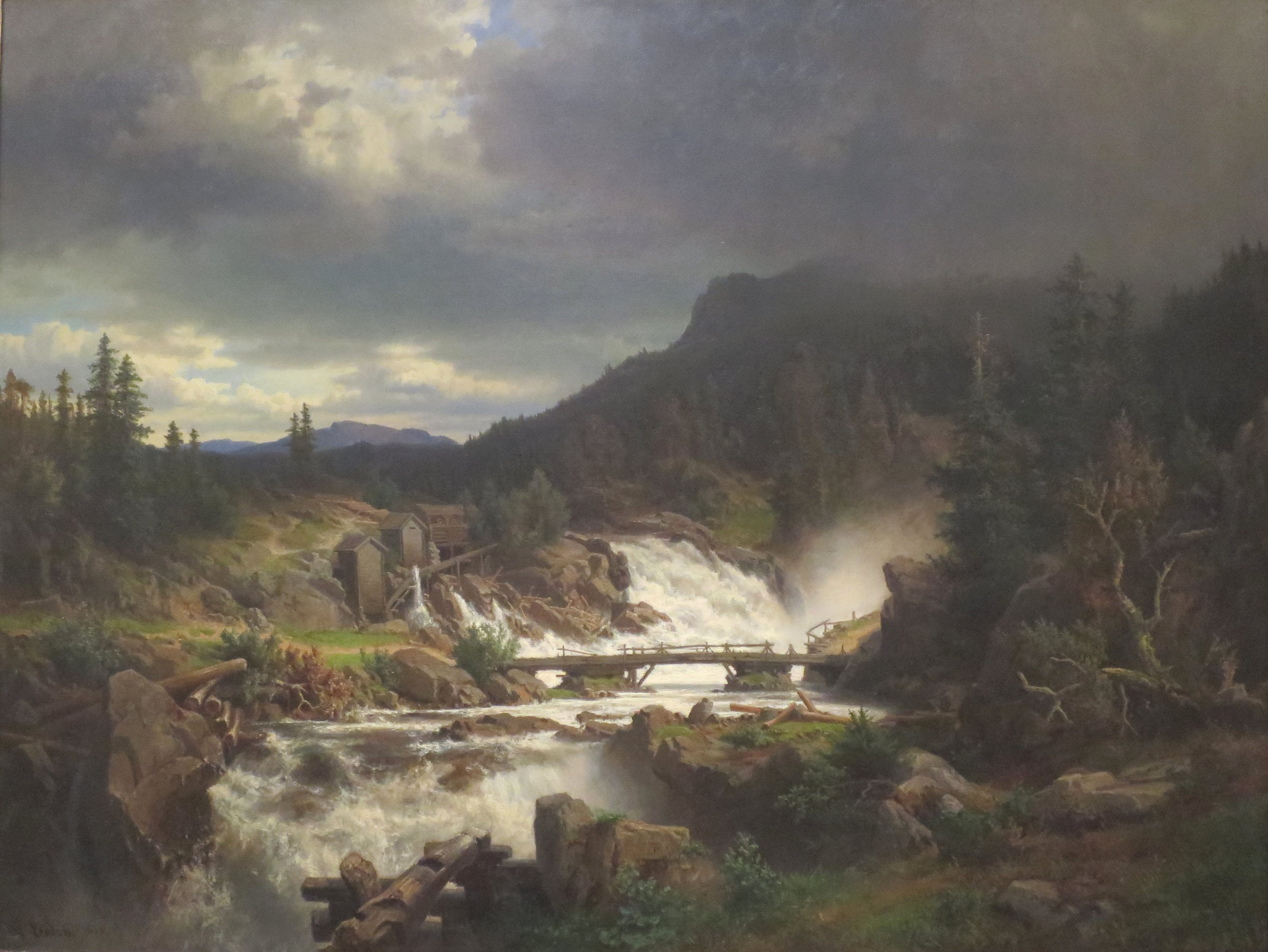 Waterfall by Erik Bodom, 1855, oil on canvas, Bergen Kunstmuseum